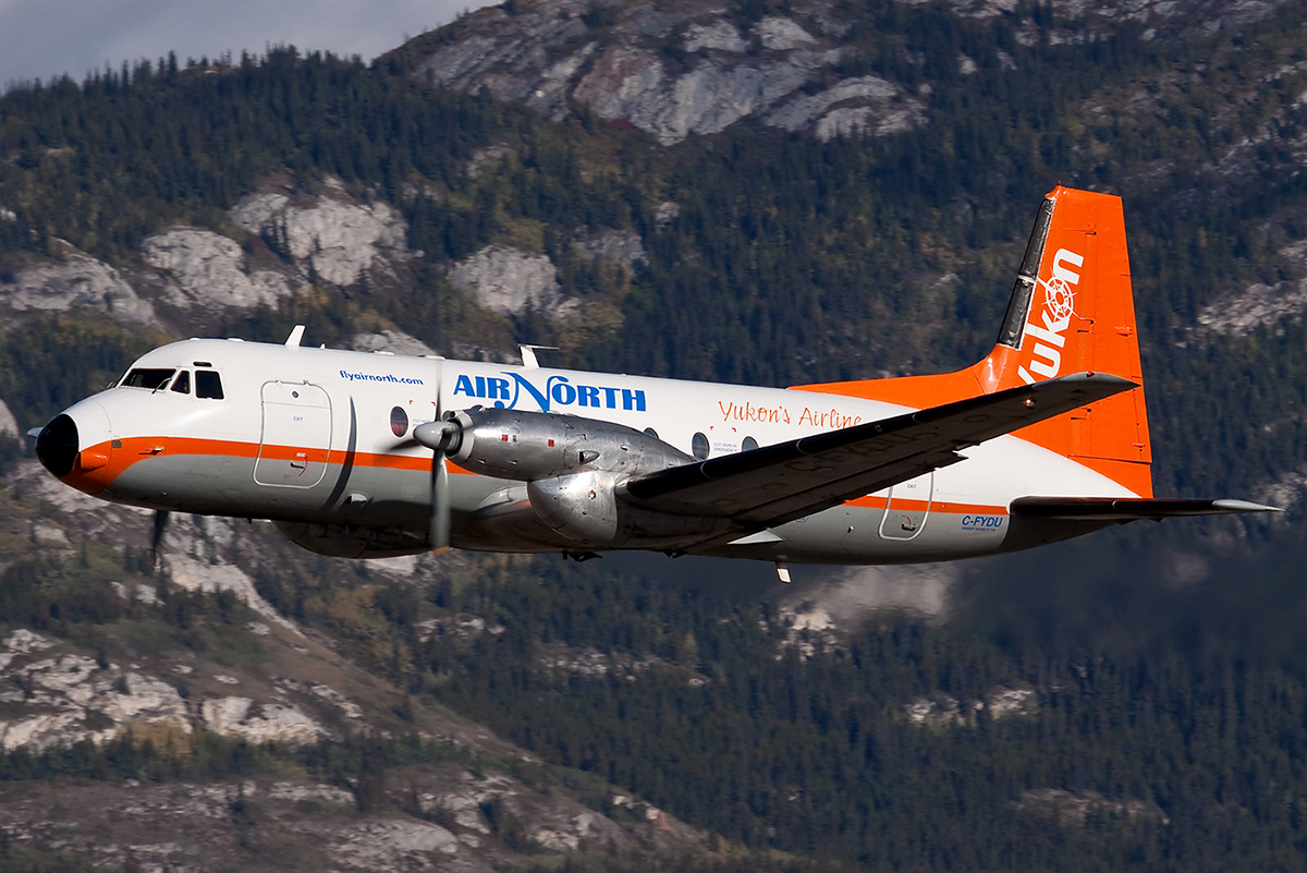 A Hawker Siddeley HS-748 of Air North climbing out of Whitehorse airport bound for Dawson City